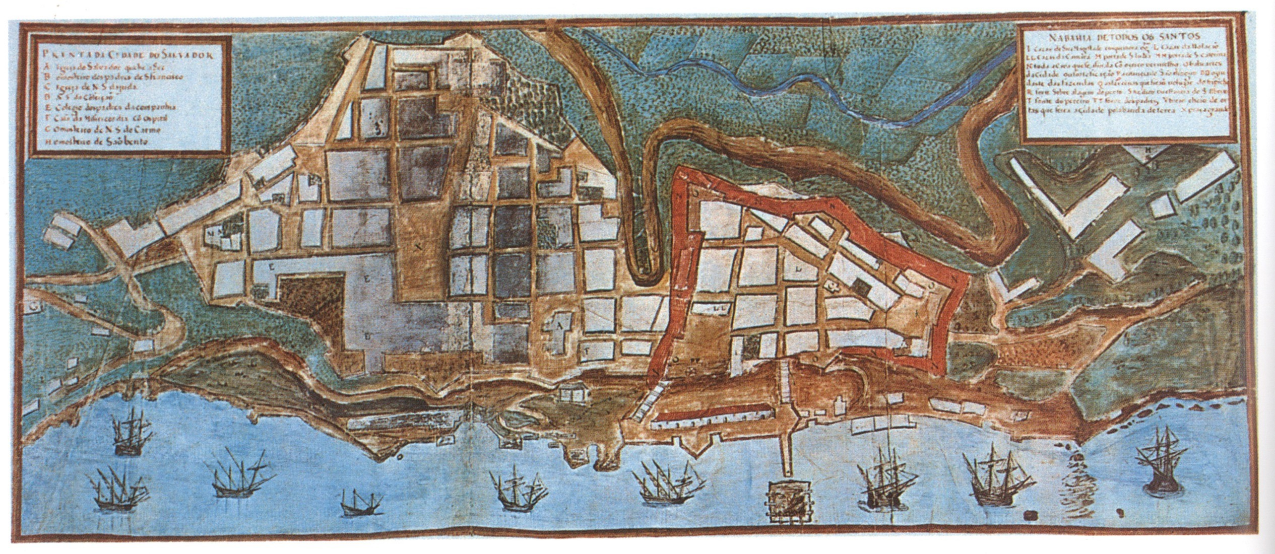 Bahia - plan of the northern and main section of the City of Salvador. From: Livro que dá razão do Estado do Brasil